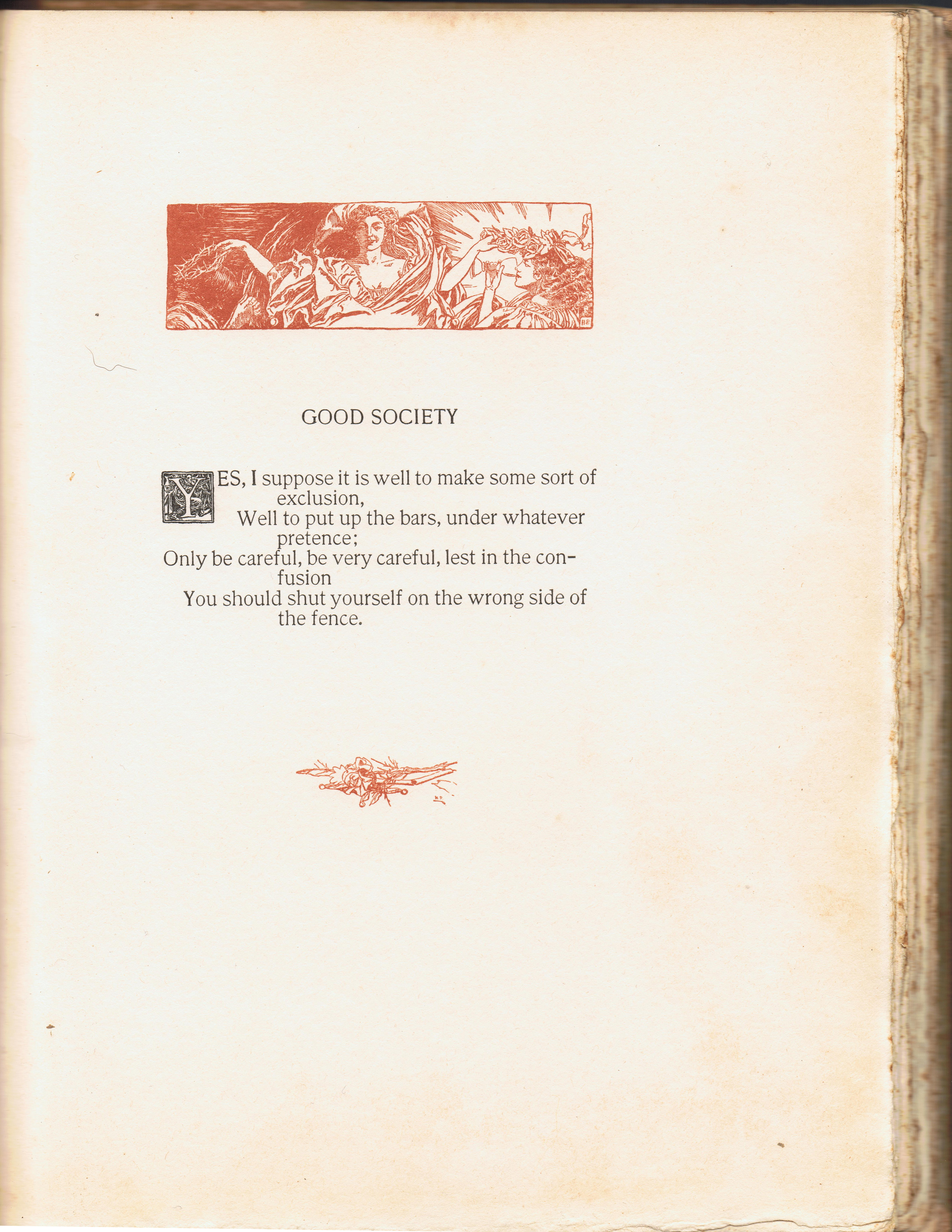 "Good Society", from the "édition_de_luxe" of Stops of Various Quills by William Dean Howells; with illustrations (printed in sepia this edition only) by Howard Pyle. This edition is Copyright MDCCCXCVI (1896). Same as page [63] of the original 1895 edition.